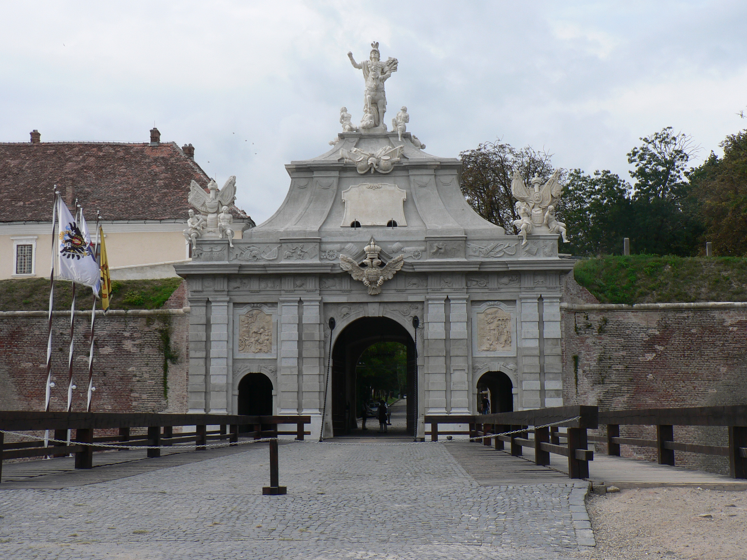 Gate 3 in Alba Iulia